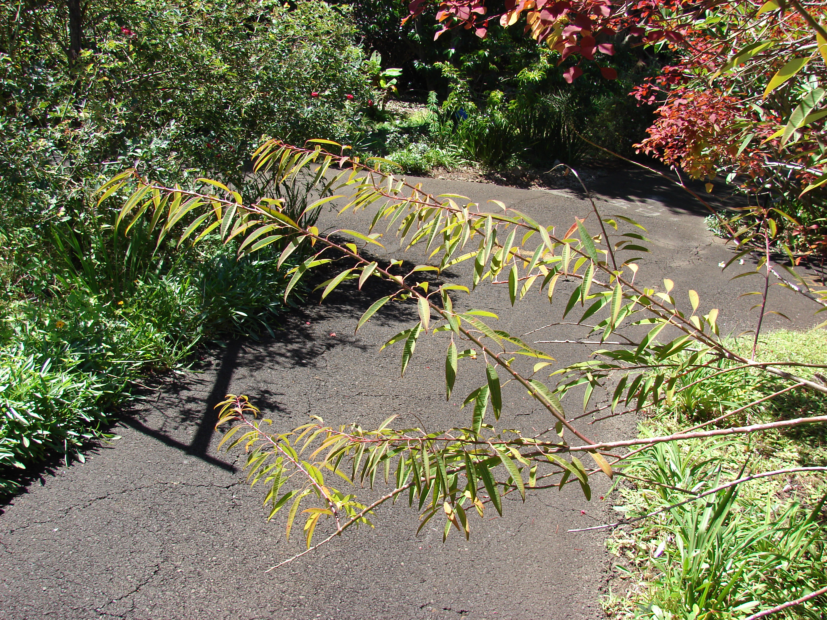 Euphorbia fulgens (leaves). Location: Maui, Enchanting Floral Gardens of Kula